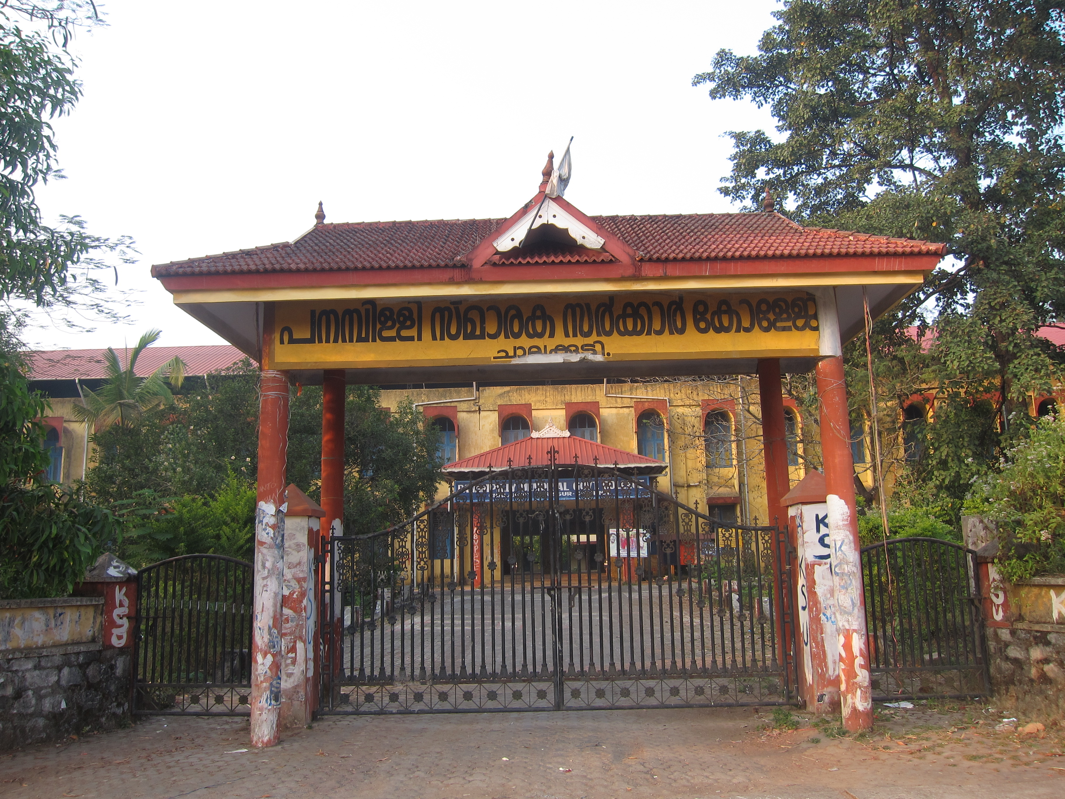 Panampilly Memorial Government College, Chalakudy പനമ്പിള്ളി സ്മാരക സർക്കാർ കോളേജ്, ചാലക്കുടി ചാലക്കുടിയിൽ നിന്ന് മൂന്ന് കിലോ മീറ്റർ അകലെ പോട്ടയിൽ ഈ കോളേജ് സ്ഥിതി ചെയ്യുന്നു